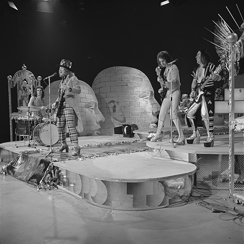 Slade in AVRO's TopPop (Dutch television show) in 1973